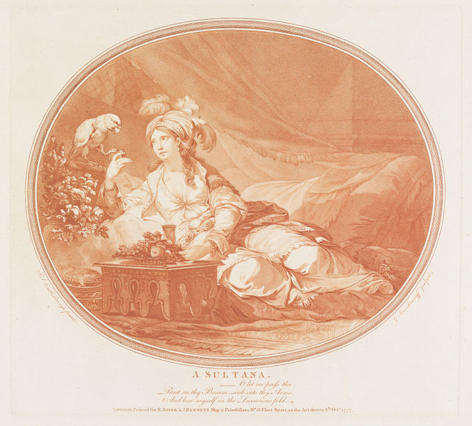 Etching and stipple, printed in red, depicting a portrait of a Sultana. Lettered with title, lines of verse, and 'P. J. Loutherbourgh pinxit. G.Scorodomoff Sculpsit. London, Printed for R. Sayer & J. Bennett, Map & Printsellers, No53 Fleet Street; as the Act directs, 8t.h Octr. 1777'.